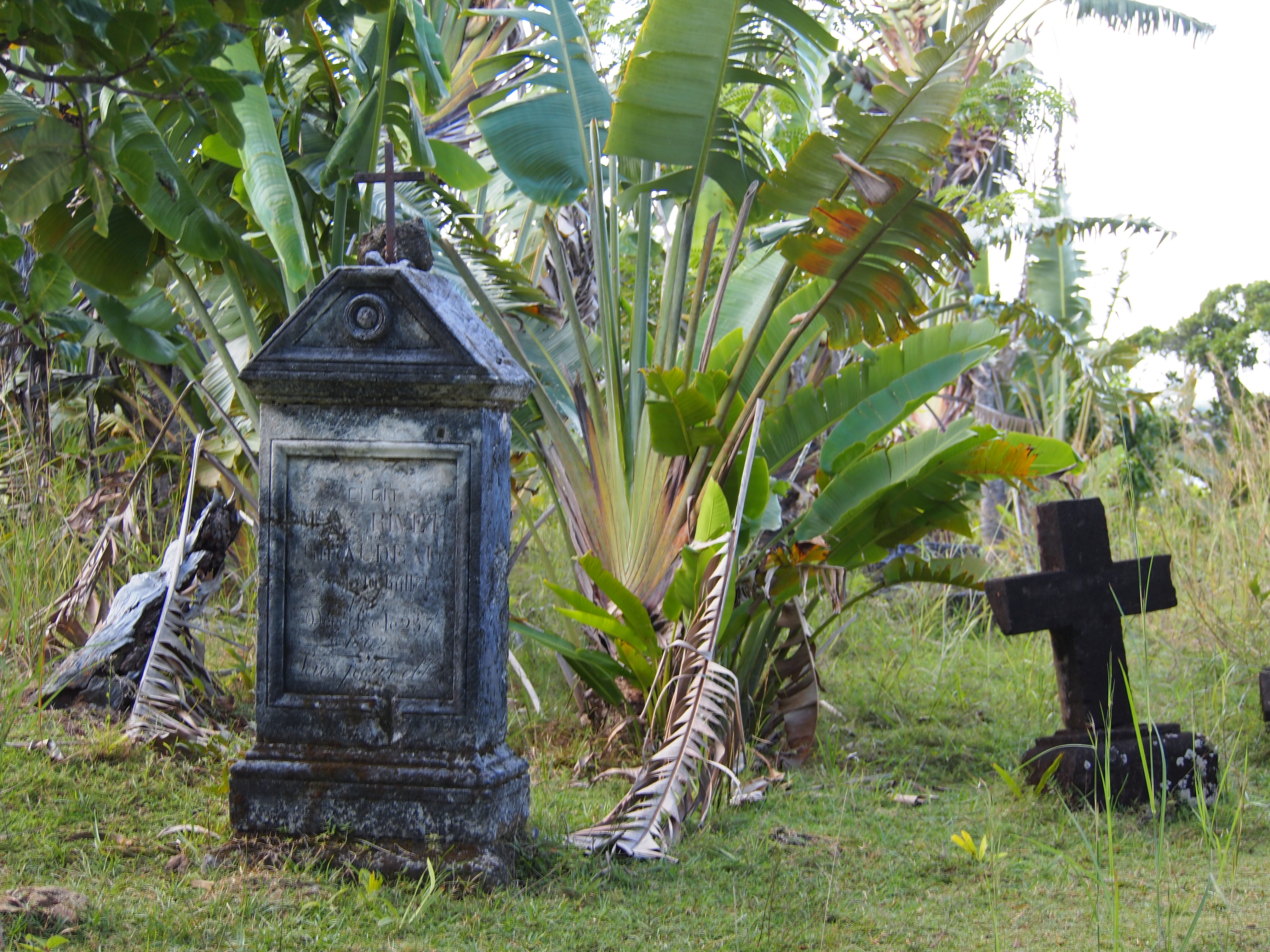 sainte marie Madagascar pirate cemetery 2